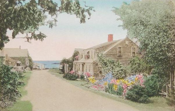 Perkins Cove Road, Ogunquit, ME; from a c. 1920 postcard.